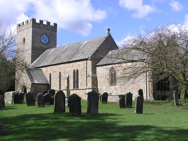 St. Cuthbert's Church: Forcett